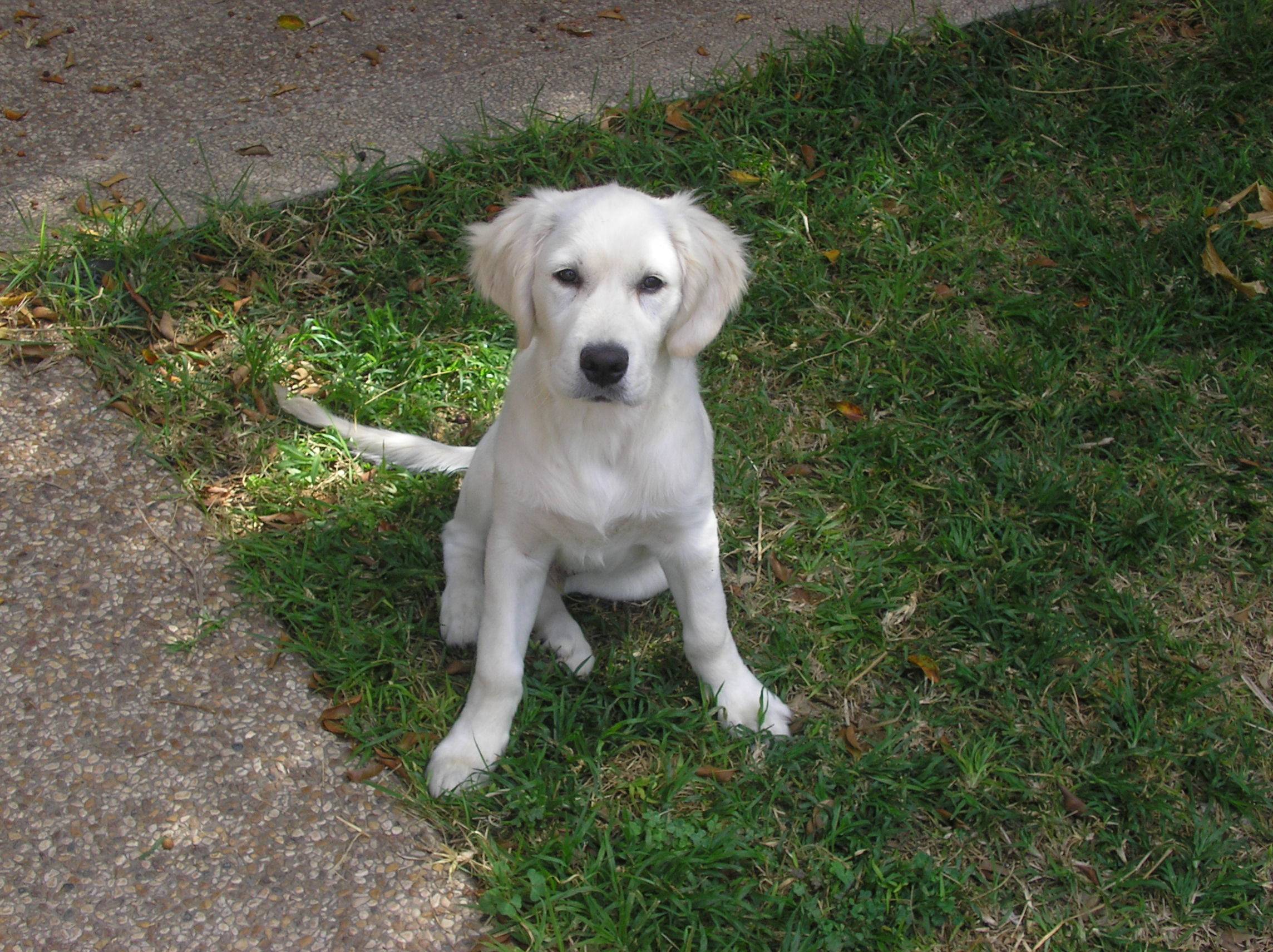 4 months old golden retriever